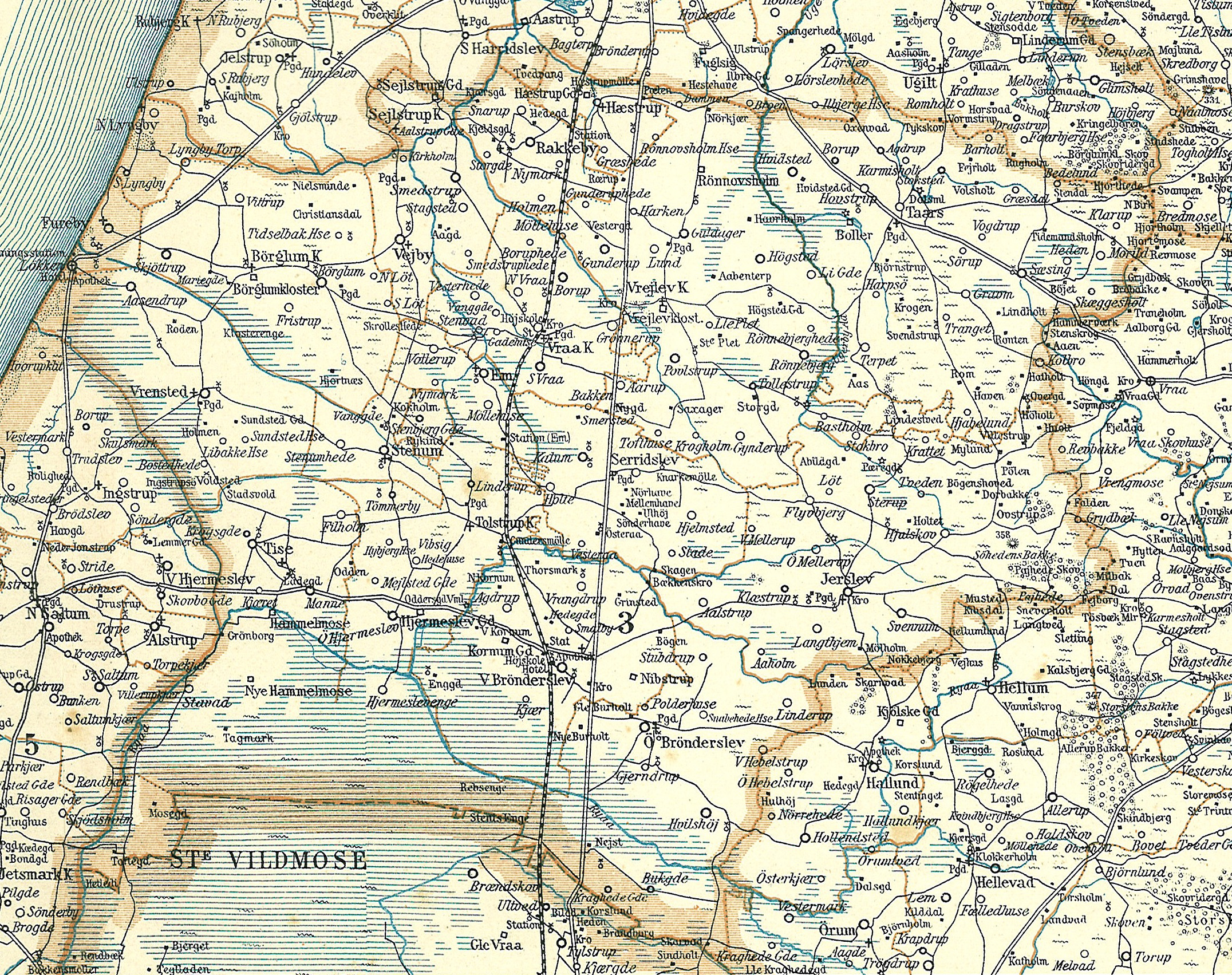 Map of Børglum Herred in Hjørring- County in Denmark